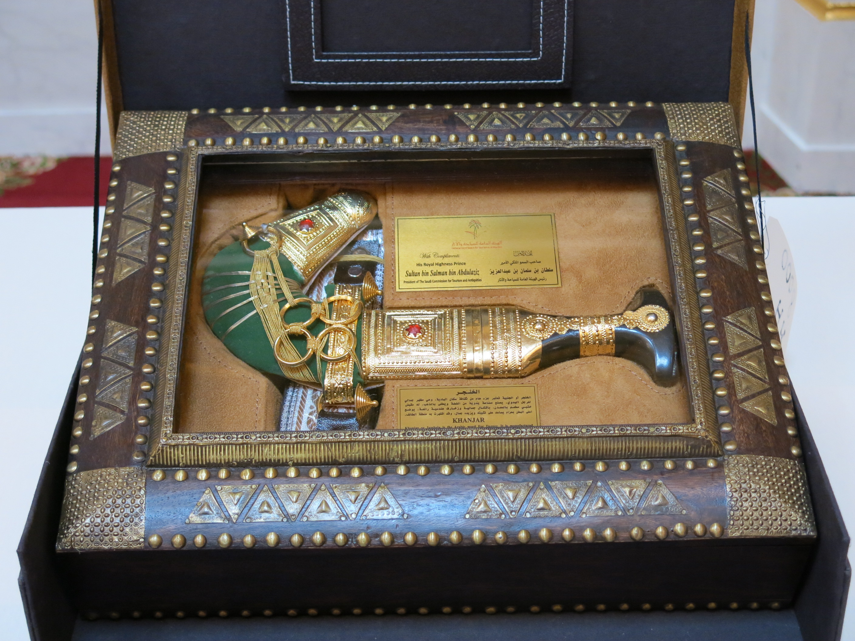 Jambiya given by the king of Saudi Arabia Abdallah ben Abdelaziz Al-Saoud to François Hollande during the visit to Riyad on 29-30 december 2013. Shown in the palais de l'Élysée (Paris, France) during the European Heritage Days 2014.